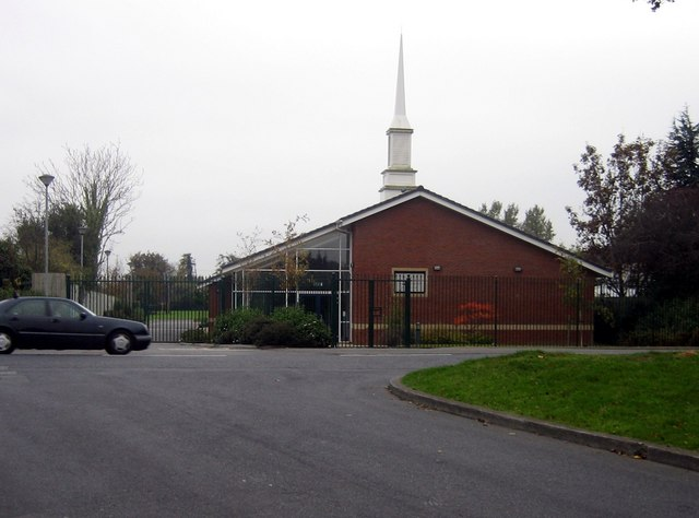 A meetinghouse of The Church of Jesus Christ of Latter-day Saints, in the townland of Kellystown, in the civil parish of Clonsilla